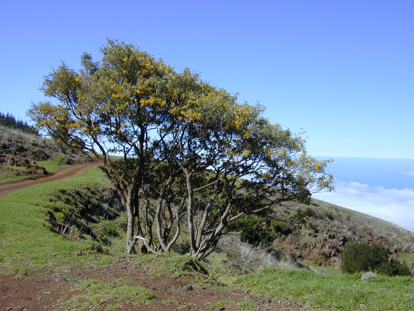 Sophora chrysophylla (habit in flower). Location: Maui, Polipoli